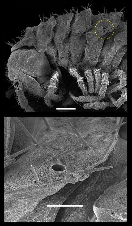 Martensodesmus cattienensis Top: Head and anterior body, lateral view with ozopore (yellow circle) on 5th segment paratergite. Scale bar: 0.2 mm Bottom: midbody paratergite with setae and an ozopore, lateral view. Scale bar: 0.1 mm